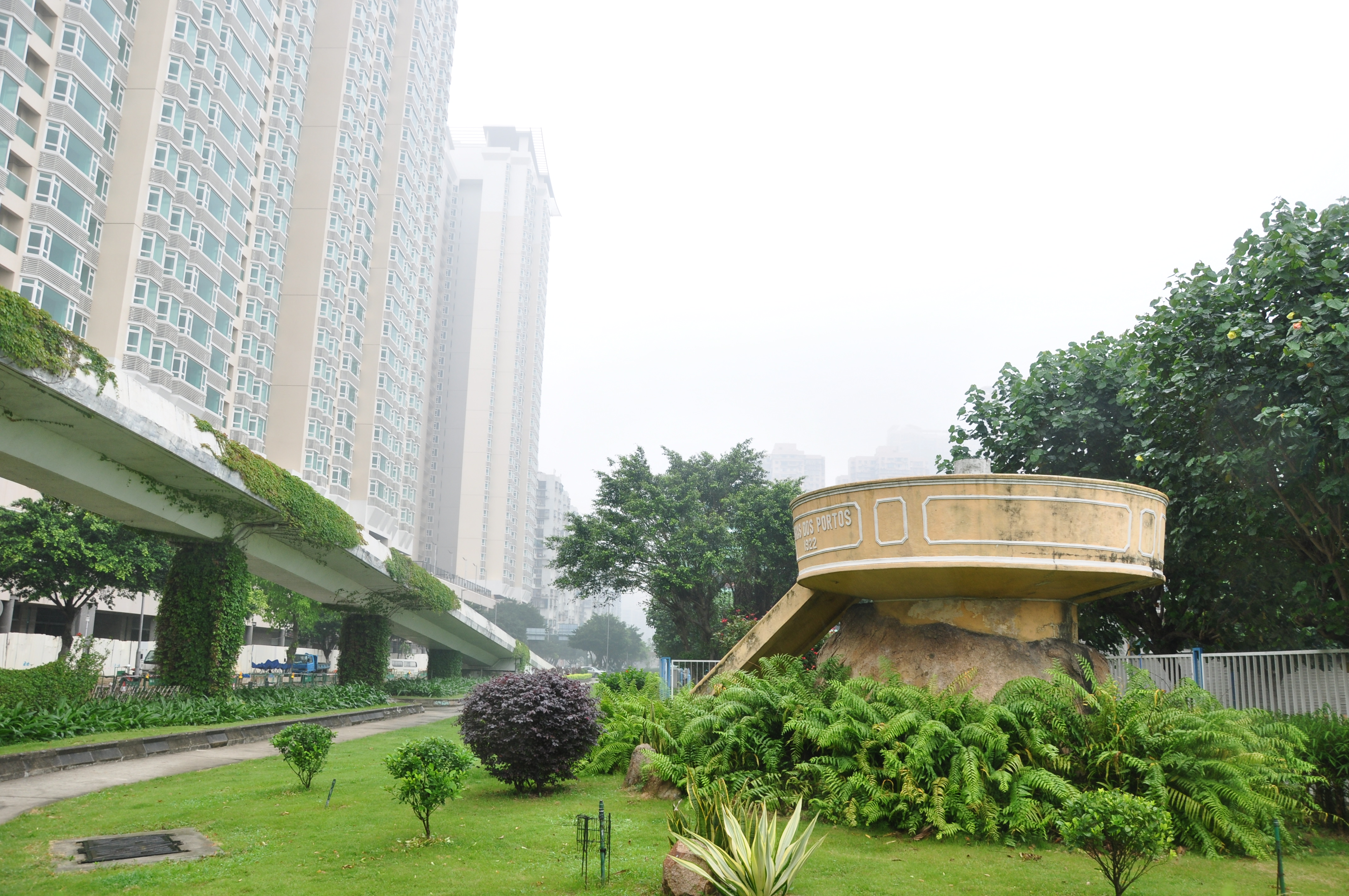 Monument of Macao's early Port construction